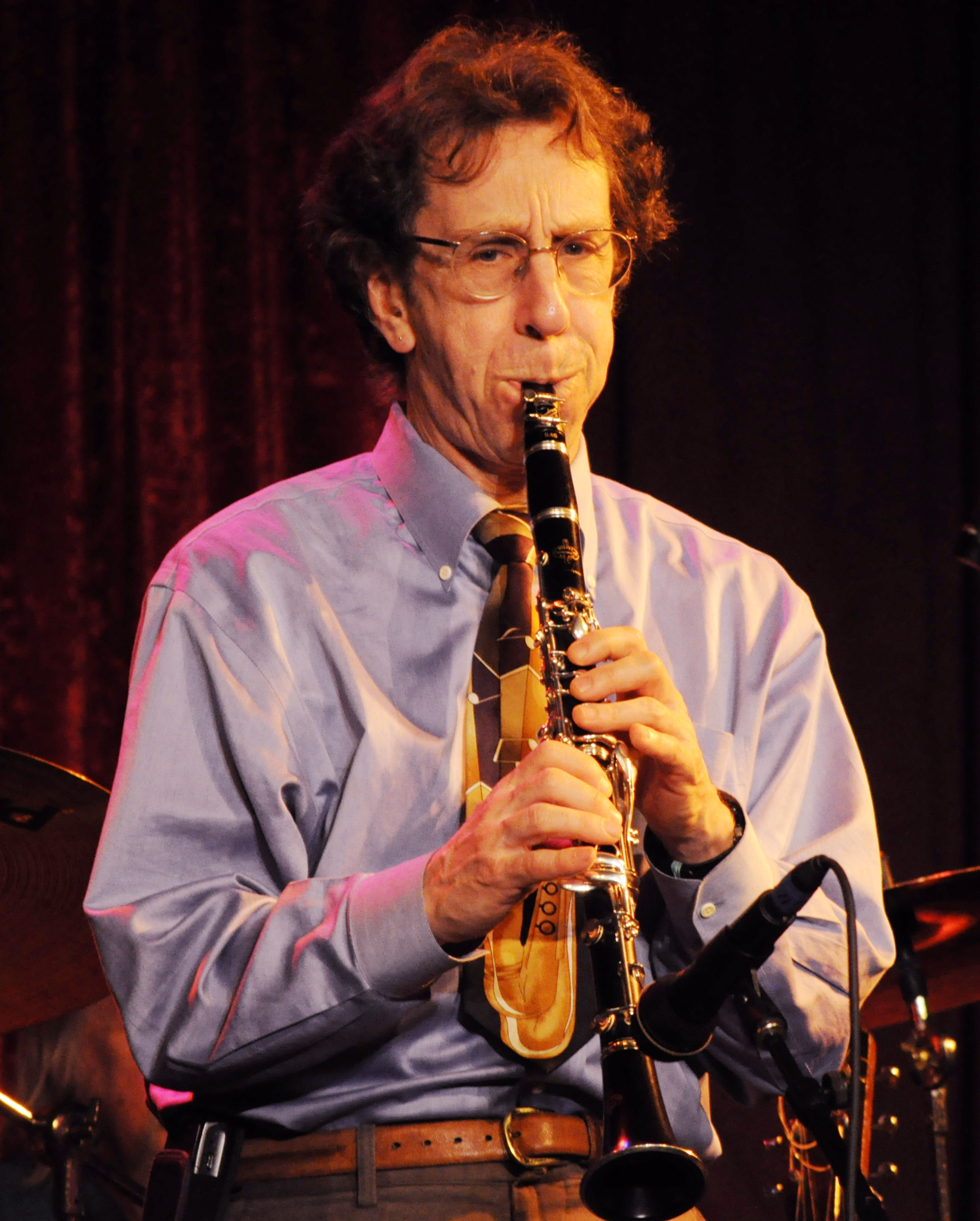 Joel Tepp playing at a tribute to Ron Davies, Hale's Palladium, Seattle, Washington, USA.